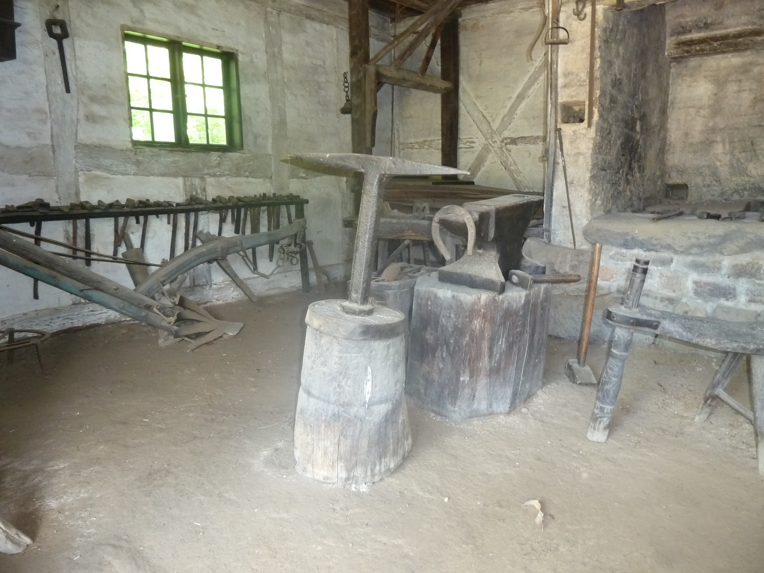 Forge from Ørbæk, Funen, now on Frilandsmuseet (the open air museum) north of Copenhagen.